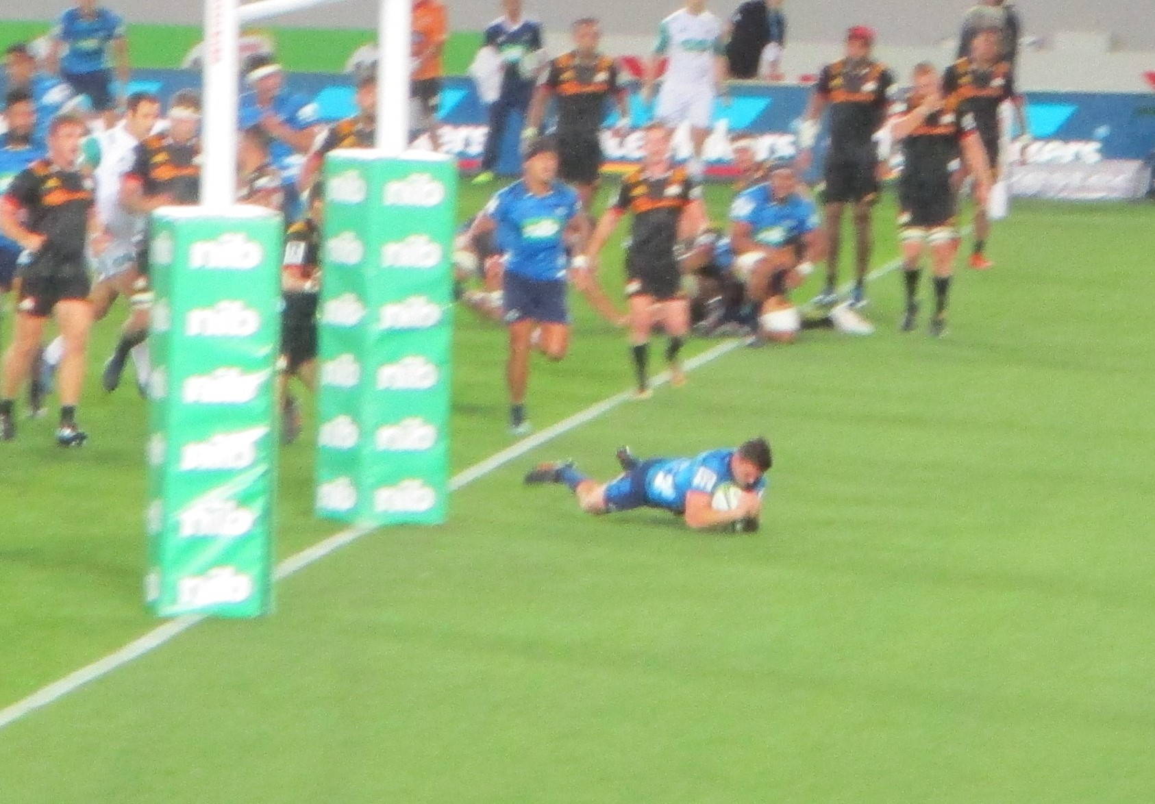 Bryn Gatland scores a try, at Eden Park against the Chiefs, March 2018